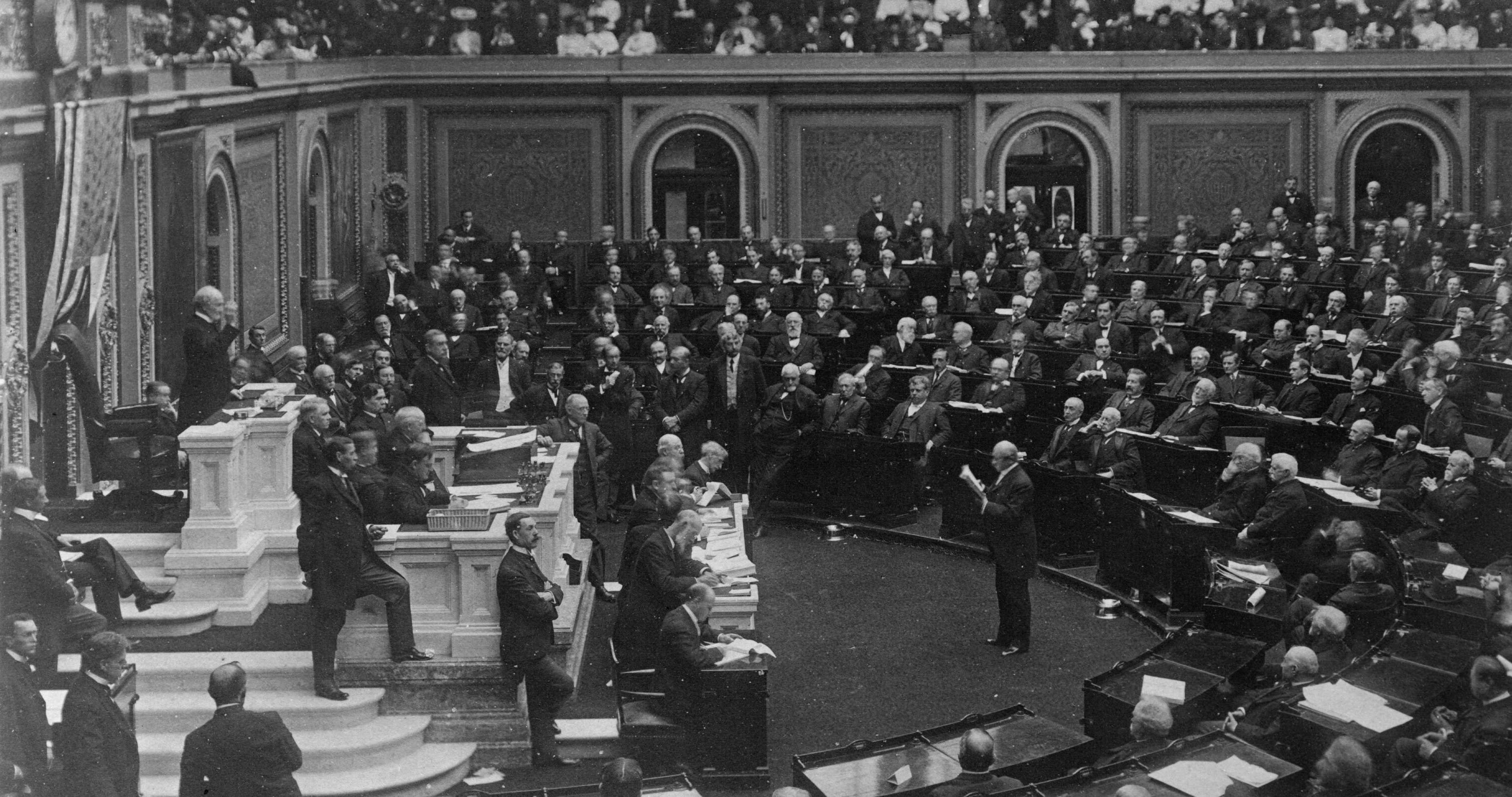 Opening ceremonies of the 59th United States Congress, 2nd session, 1906, with Speaker Joseph Cannon presiding.